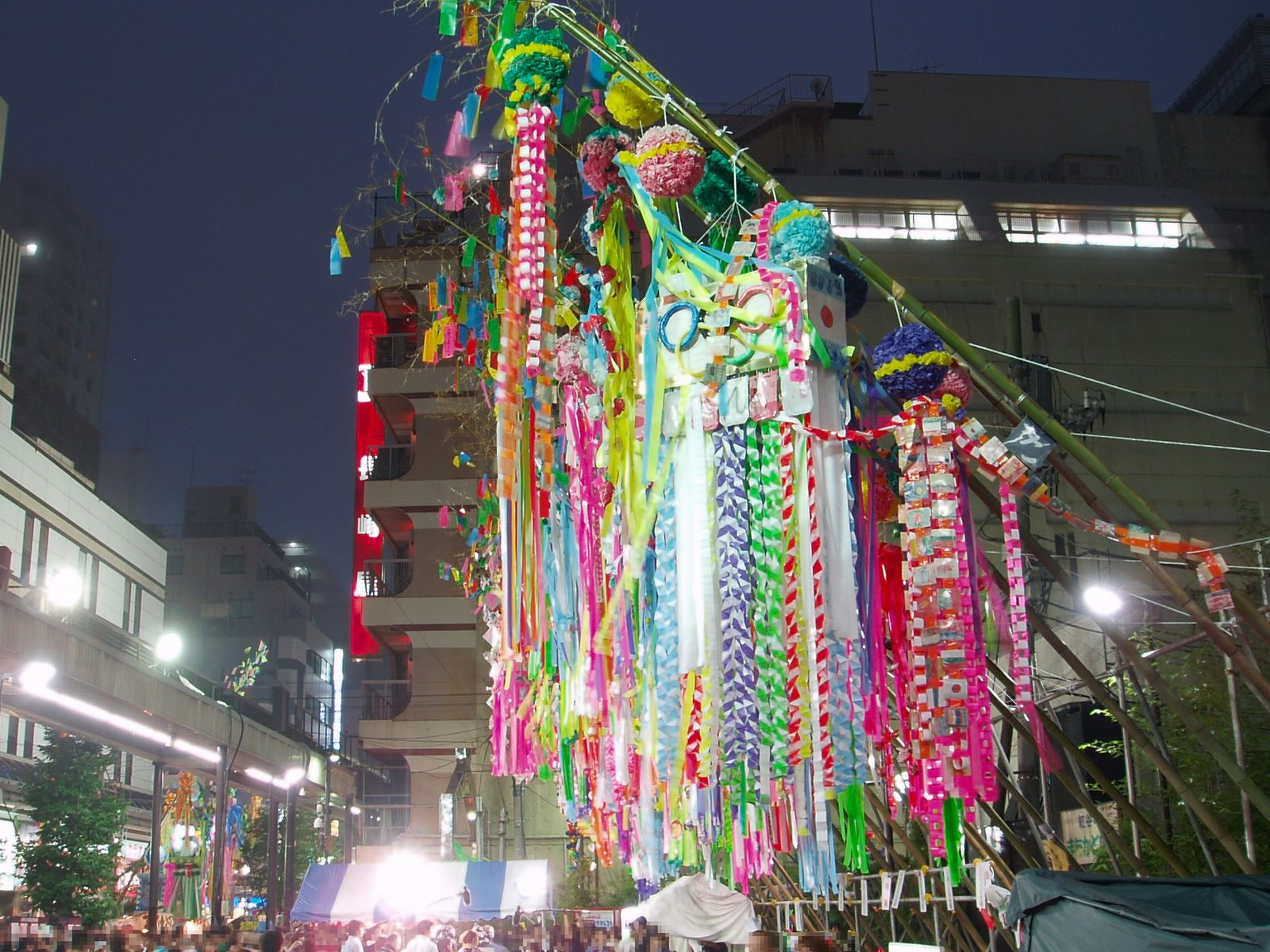 Shonan Hiratsuka Tanabata(night view)